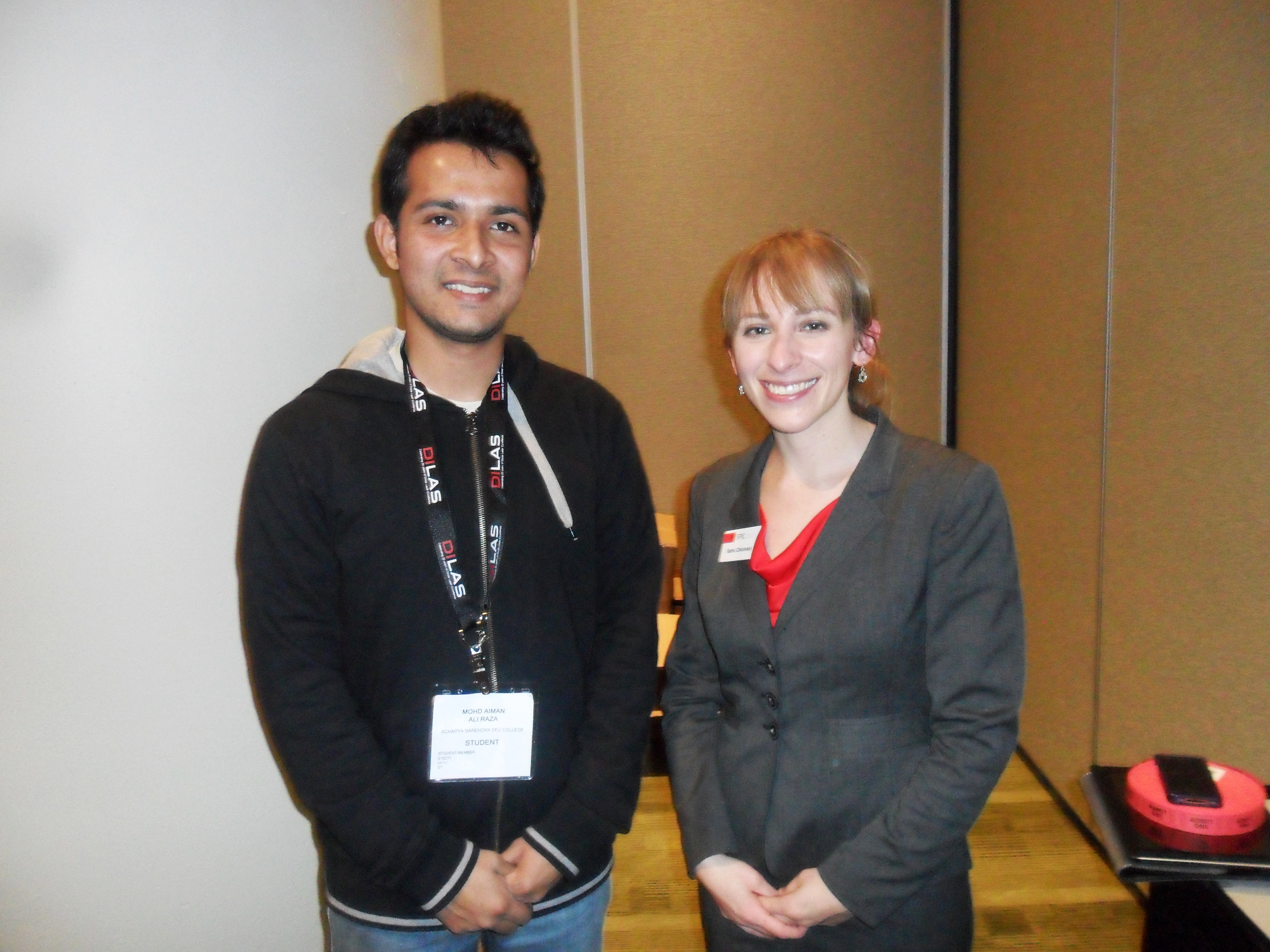 Acharya Narendra Dev College's SPIE student chapter member M Aiman Ali Raza at SPIE Photonics West 2014, San Francisco, USA with SPIE student activities coordinator Tasha Chicovosky.